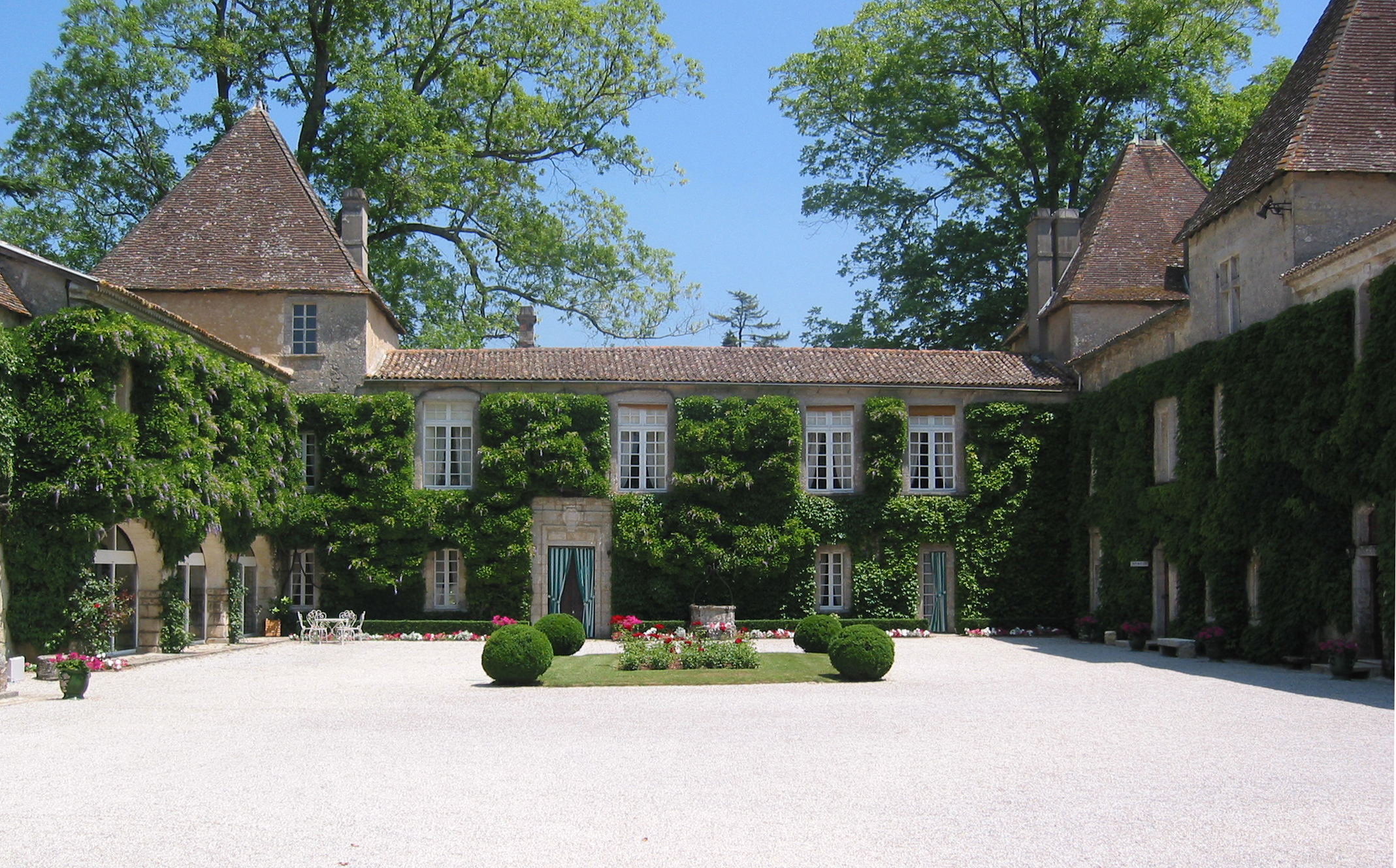 Cours intérieure de Carbonnieux